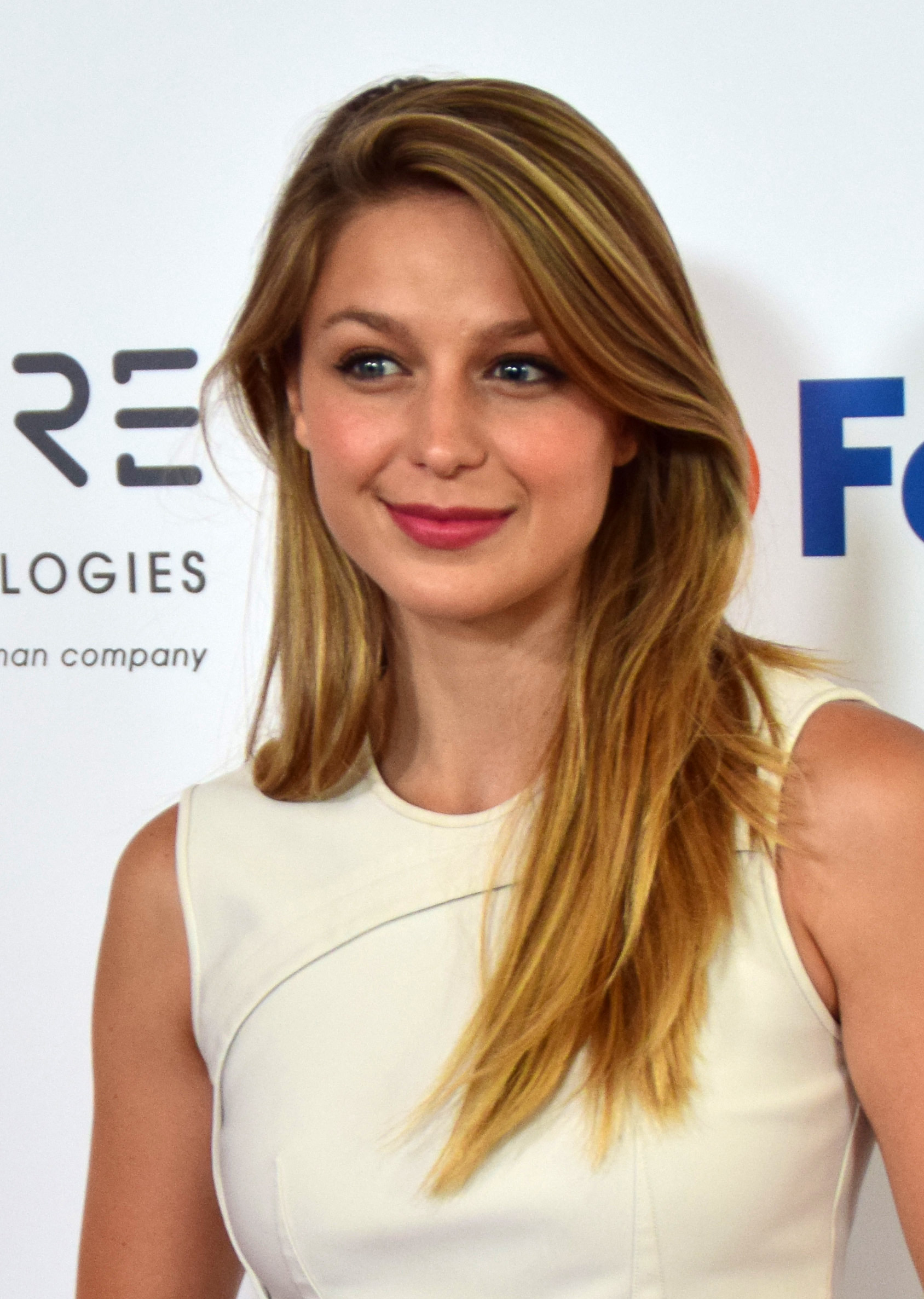 Melissa Benoist on the red carpet for the Thirst Project’s 6th Annual Thirst Gala hosted by Pauley Perrette (NCIS) at the Beverly Hilton Hotel. The event was sponsored by Follett, Supporters of The Thirst Project Come Together to Honor Those That Have Made a Difference in the World Water Crisis.